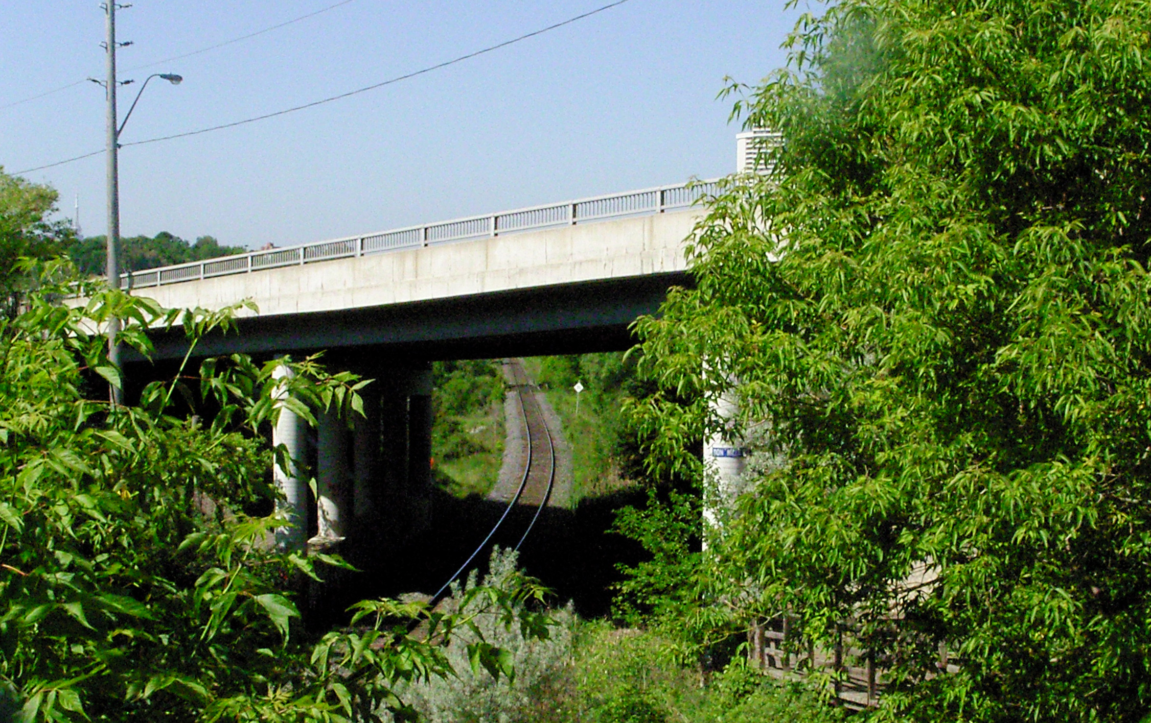 View of Don Mills Road over CNR and pedestrian trail in Toronto, Ontario, Canada.